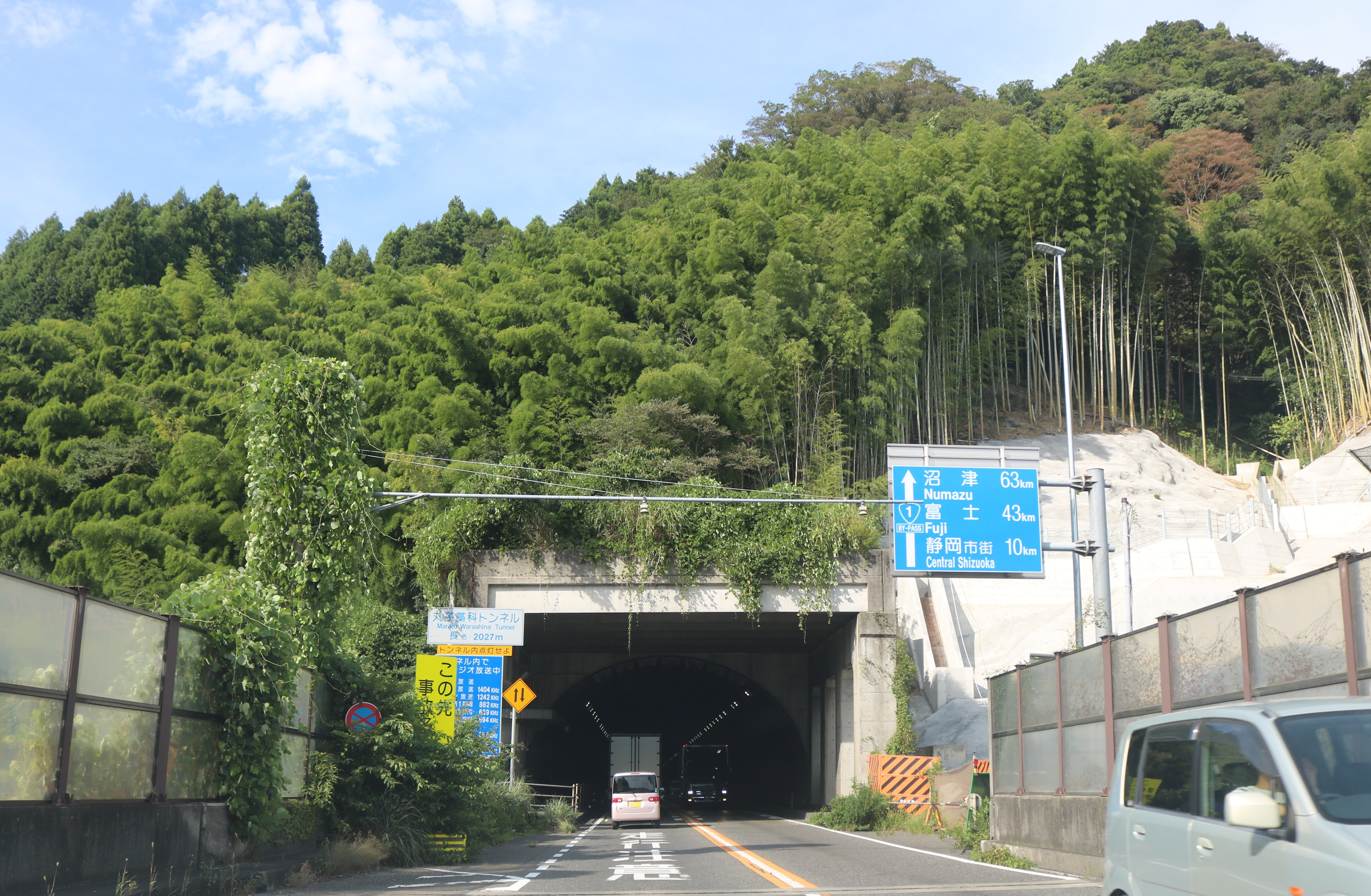 Marikowarashina Tunnel of Seishin Bypass (Route 1) in Mariko, Suruga-ku, Shizuoka City, Shizuoka Prefecture, Japan.